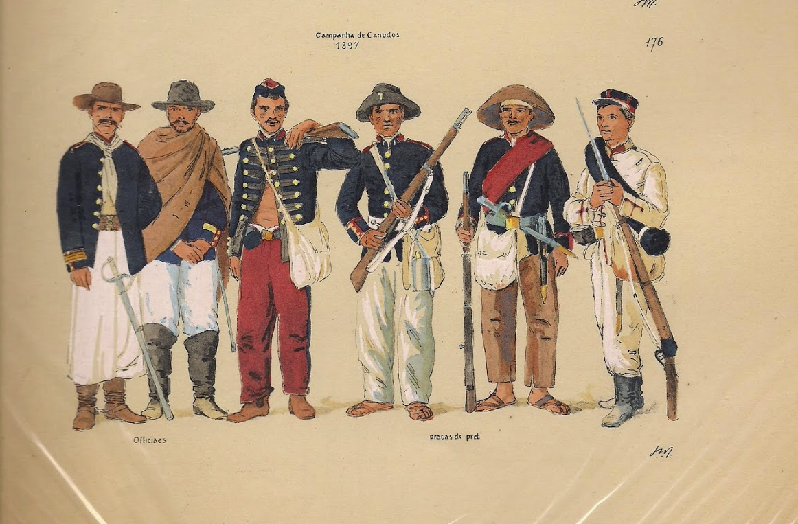 Infantry: Officers and soldiers in Canudo campaign.